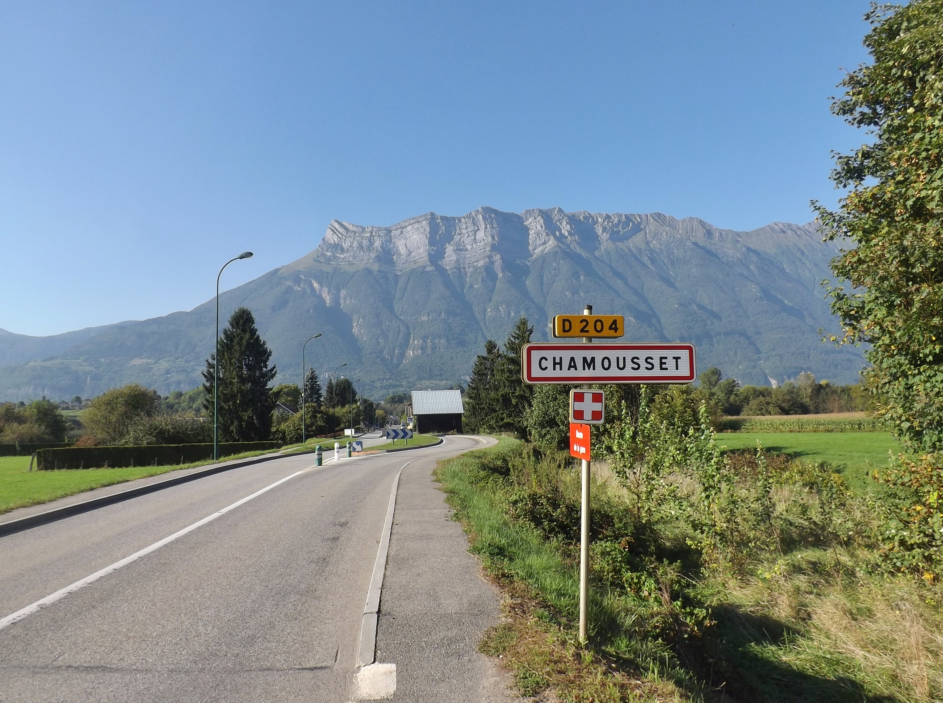 Welcoming sign into the French commune of Chamousset, with the Arclusaz mount at the background, in Savoie.